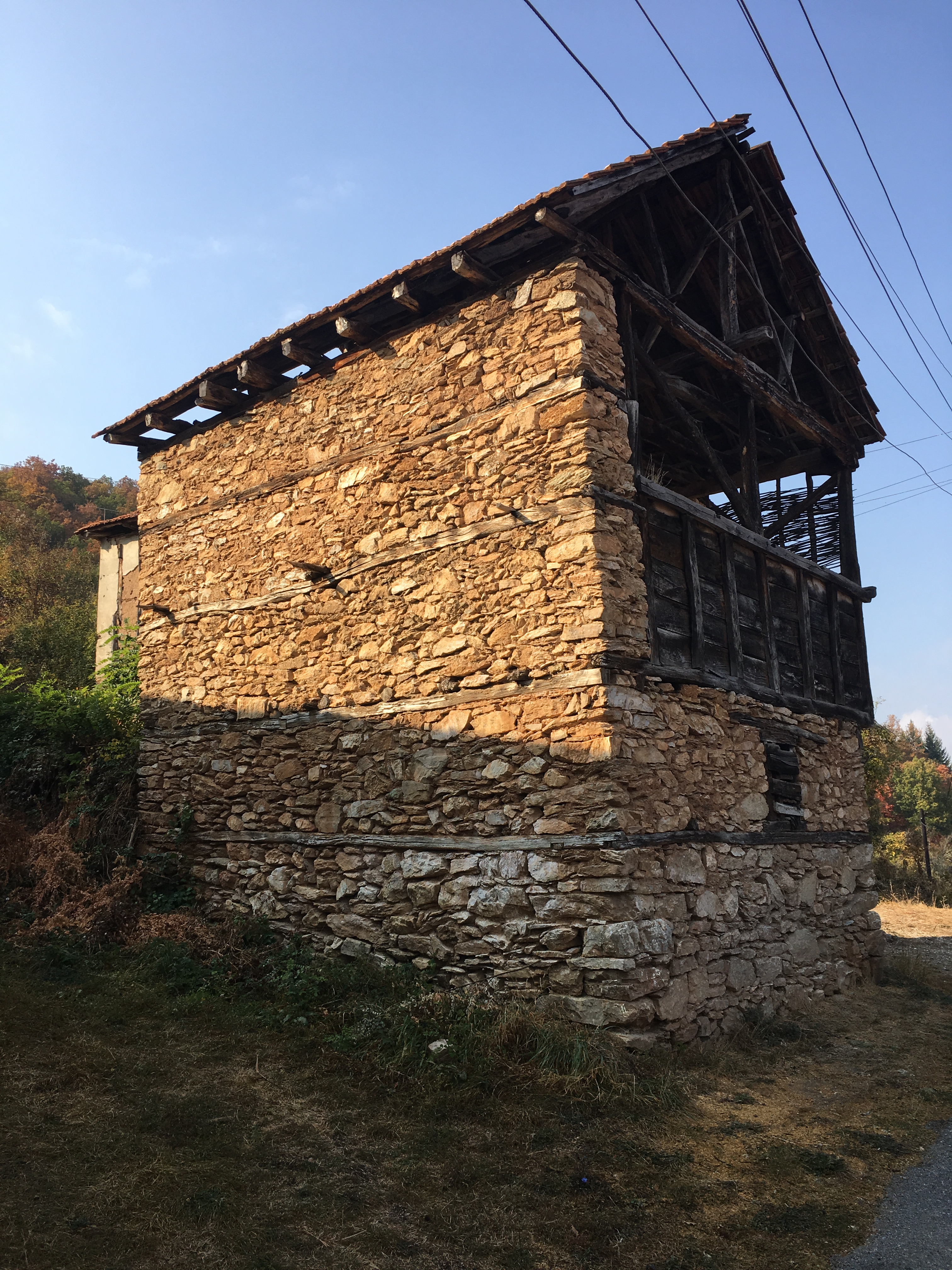 Wikiexpedition to Kopačka